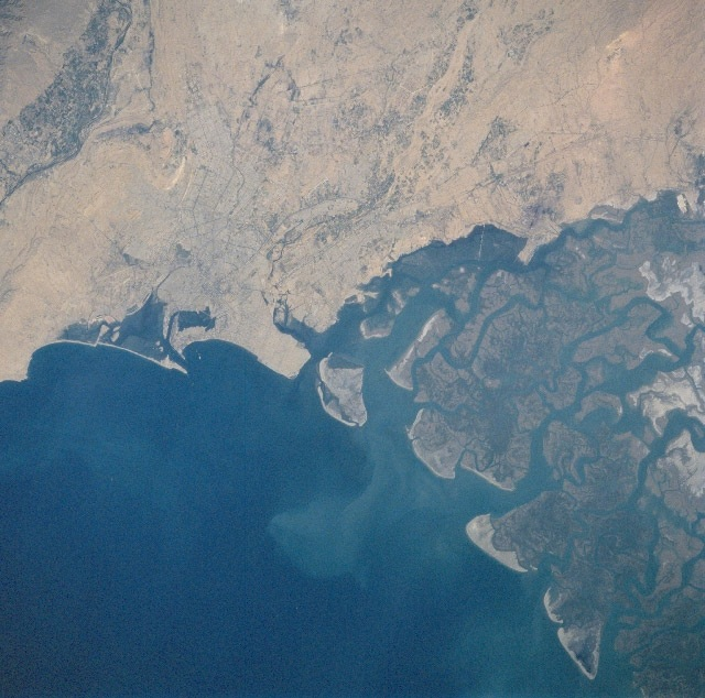 North-west part of the Indus river delta from satellite